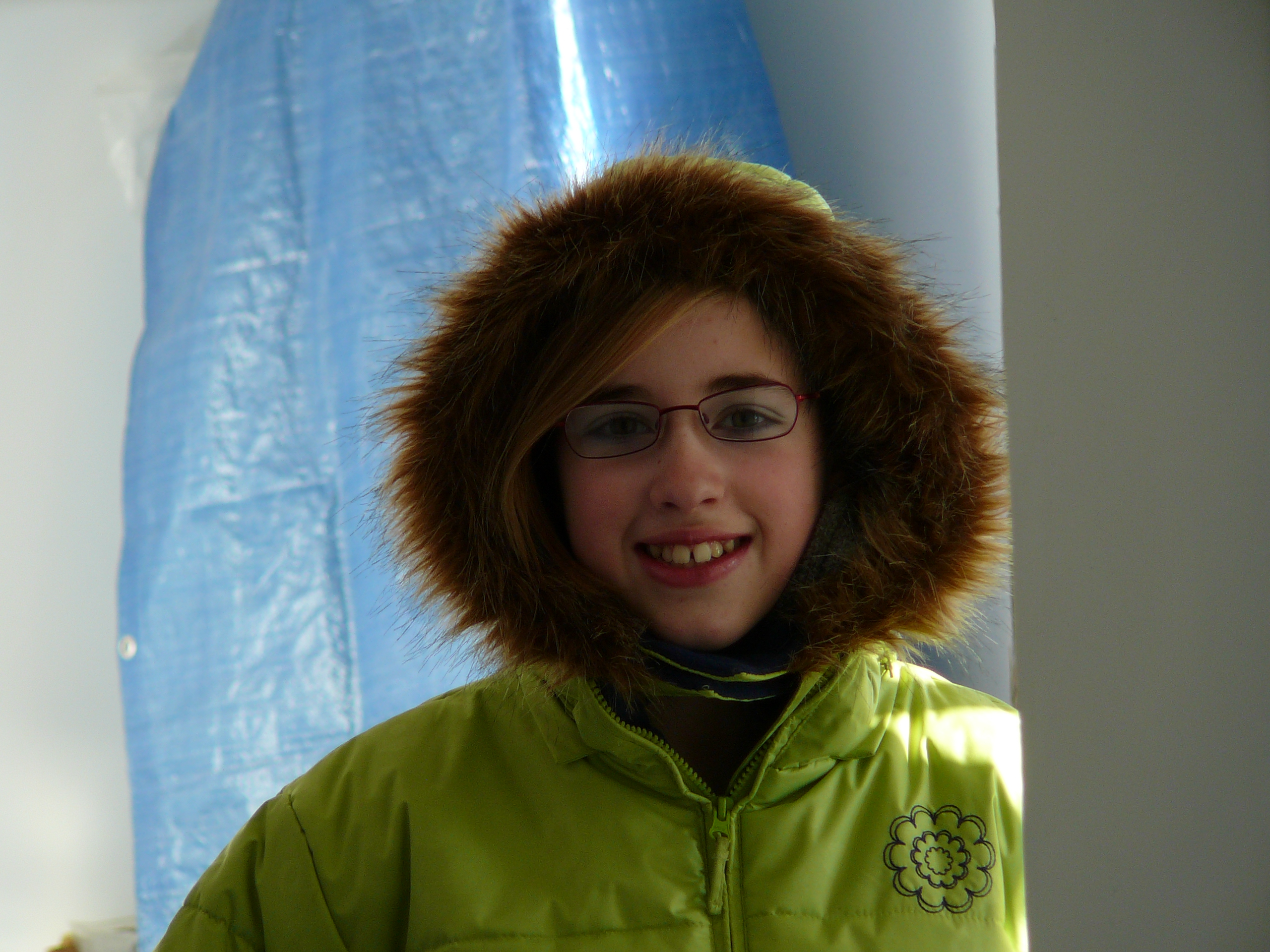 A North American girl wearing a light green stylized parka jacket with fake fur. Photography credit to benjrh.